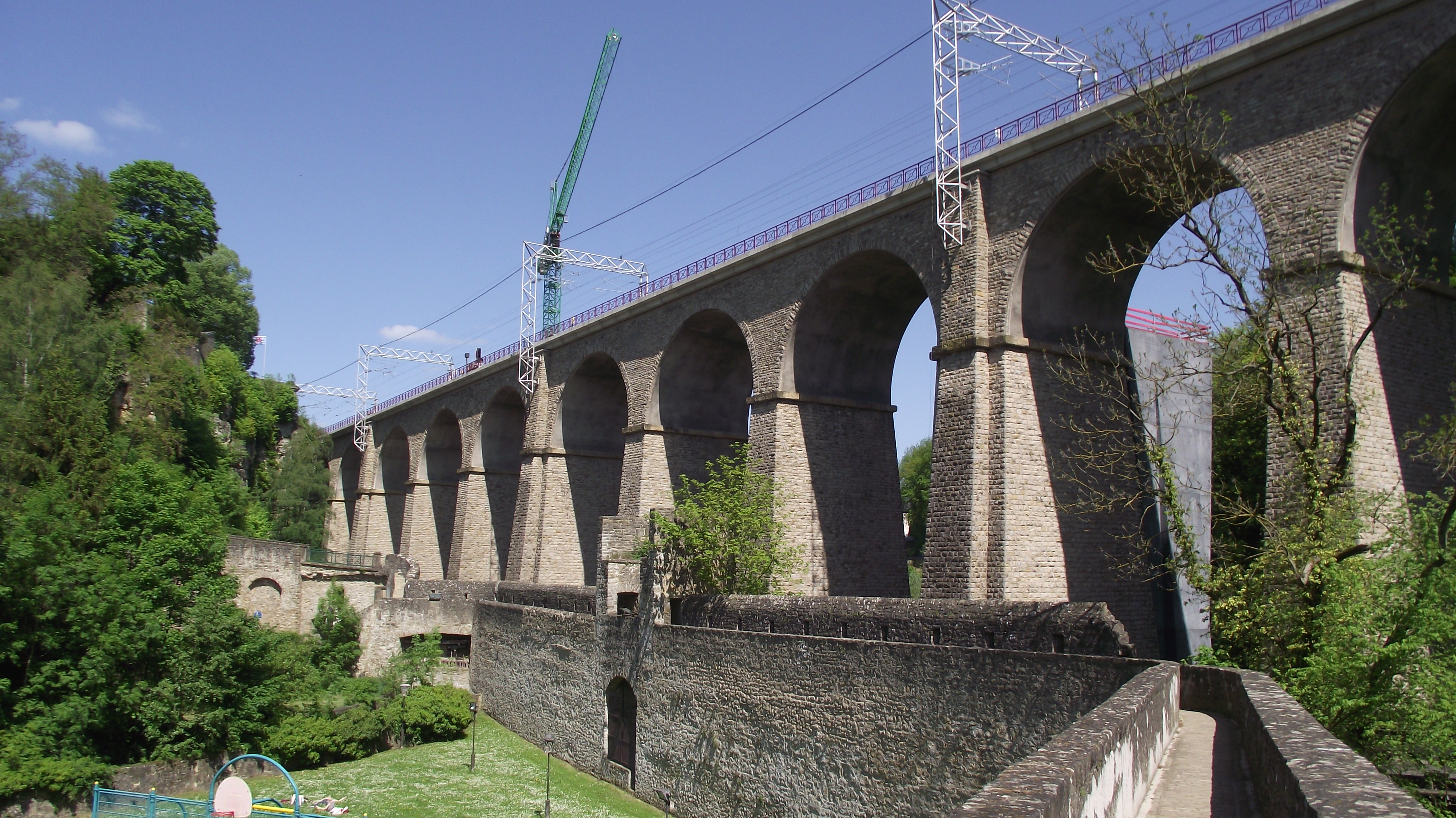 Enlargement of the bridge